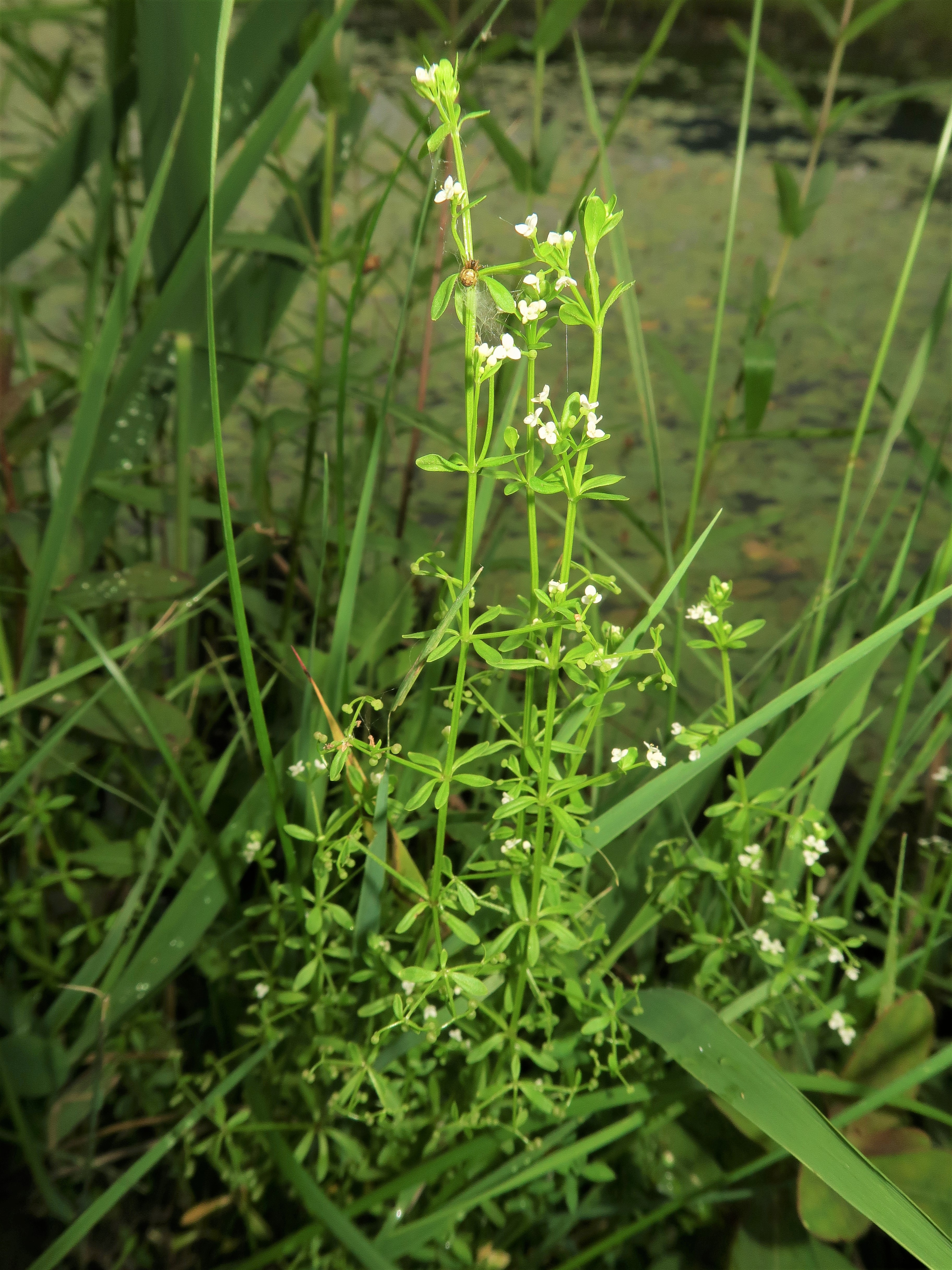 Galium trifidum subsp. columbianum , Aizu area, Fukushima pref., Japan